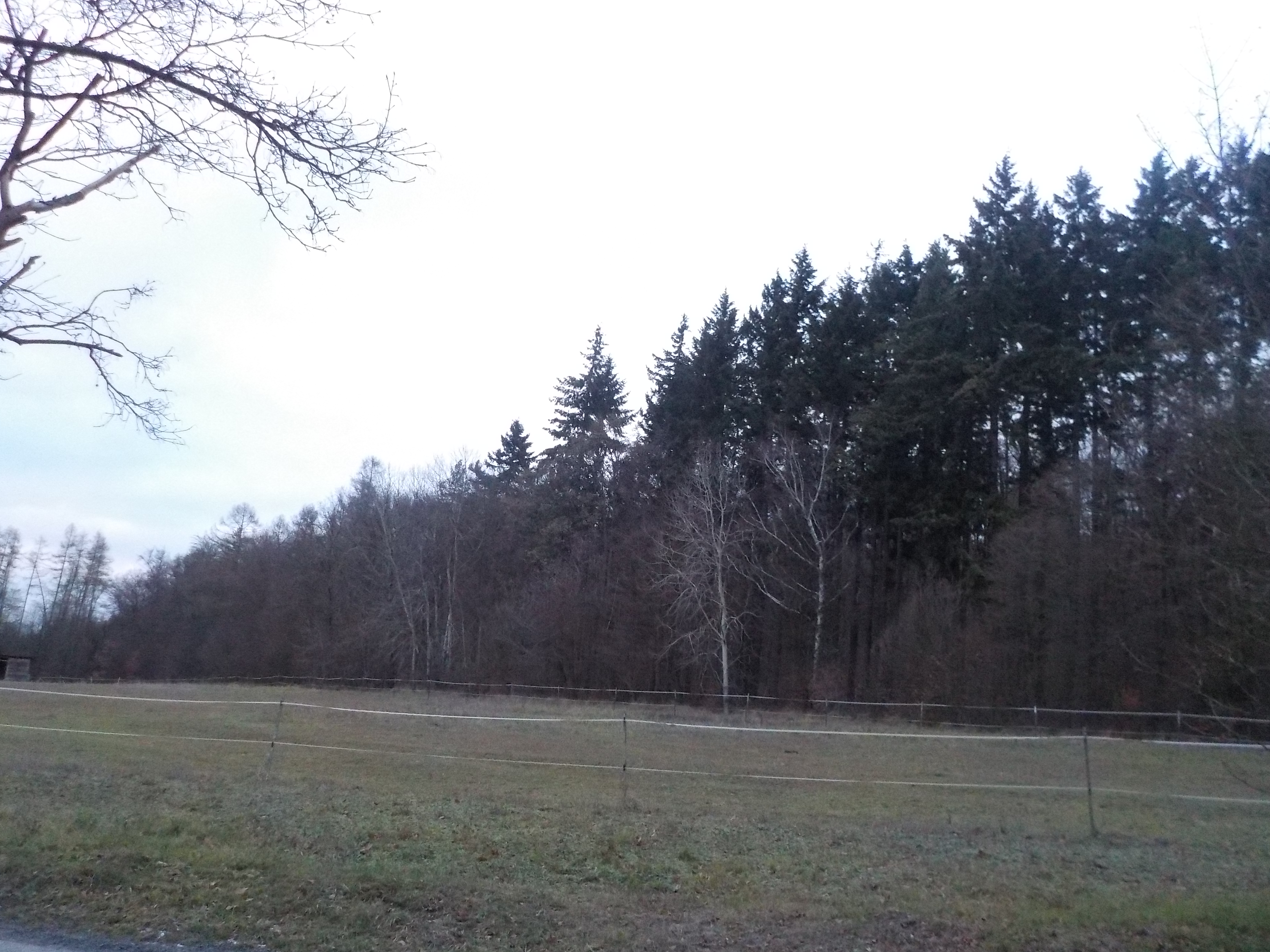 Vrch Dřínová - pohled od západu.